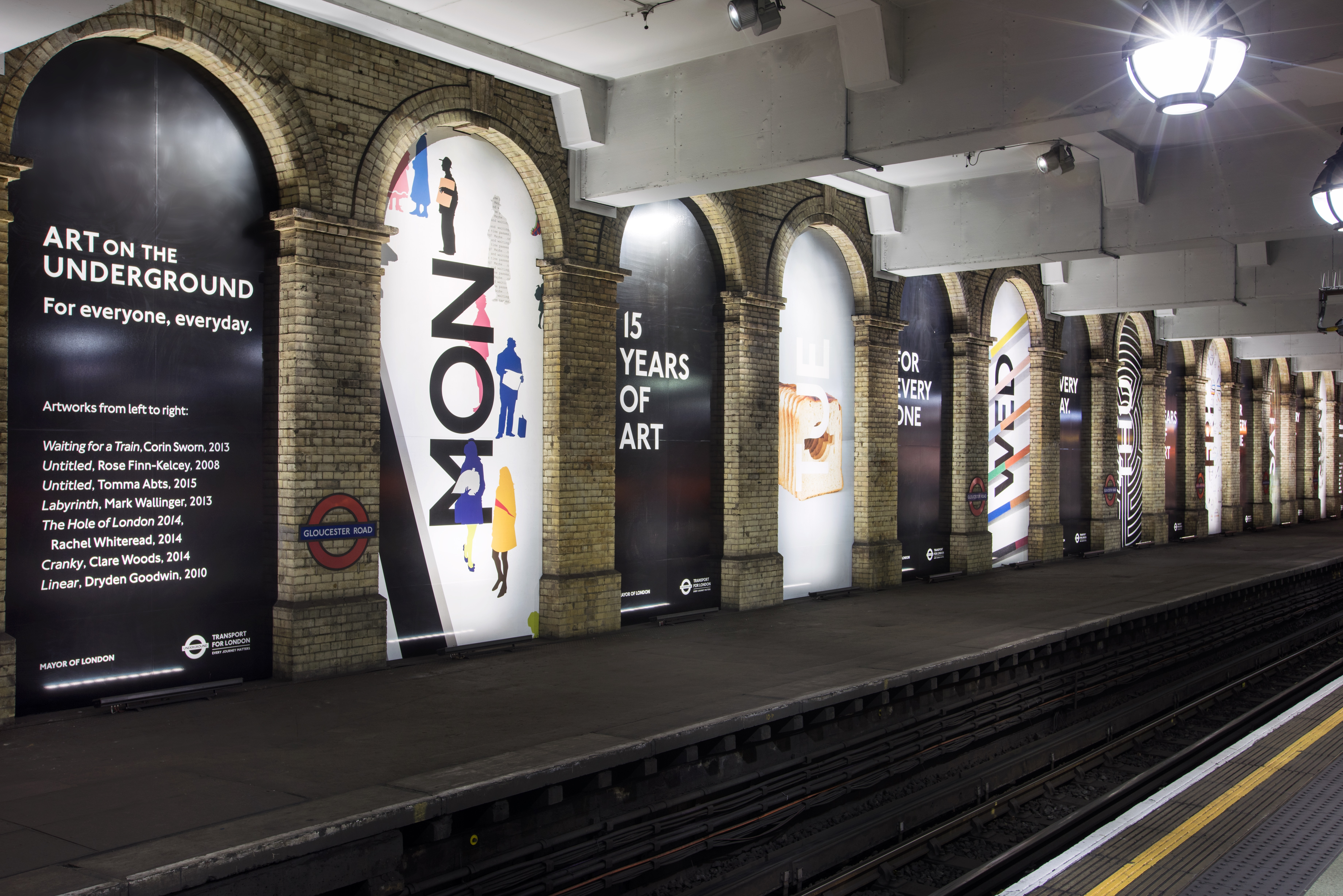 Art on the Underground commission at Gloucester Road station. 2016